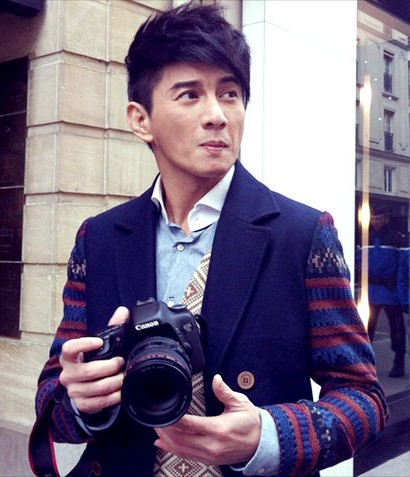 Nicky Wu with Canon camera on the streets of Paris中文（台灣）: 吳奇隆在巴黎街頭手持佳能相機